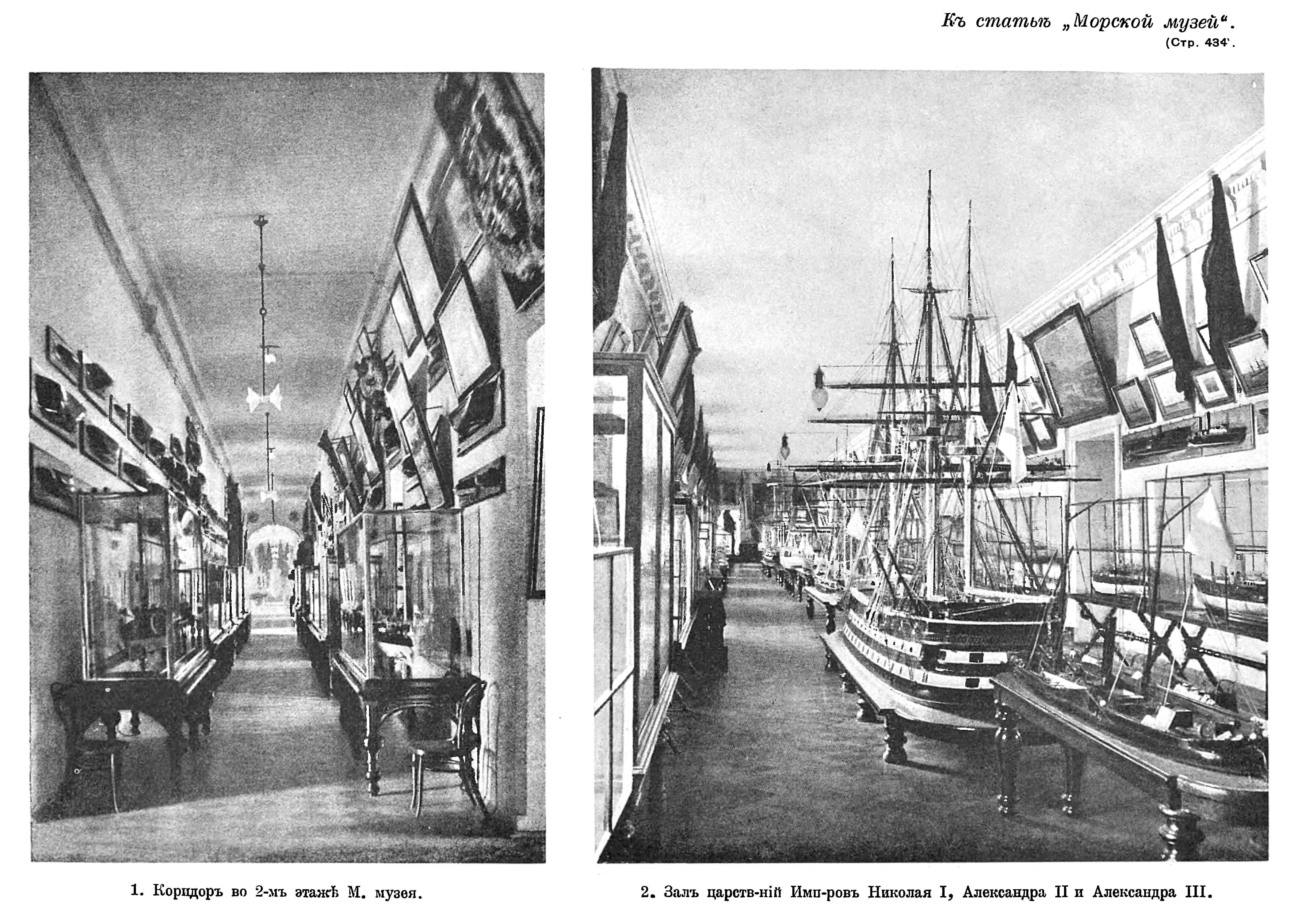 Central Naval Museum (Russian: Центральный военно-морской музей) is a naval museum in St Petersburg, Russia. It is one of the first museums in Russia and one of the world’s largest naval museums, with a large collection of artefacts, models and paintings reflecting the development of Russian naval traditions and the history of the Russian Navy.